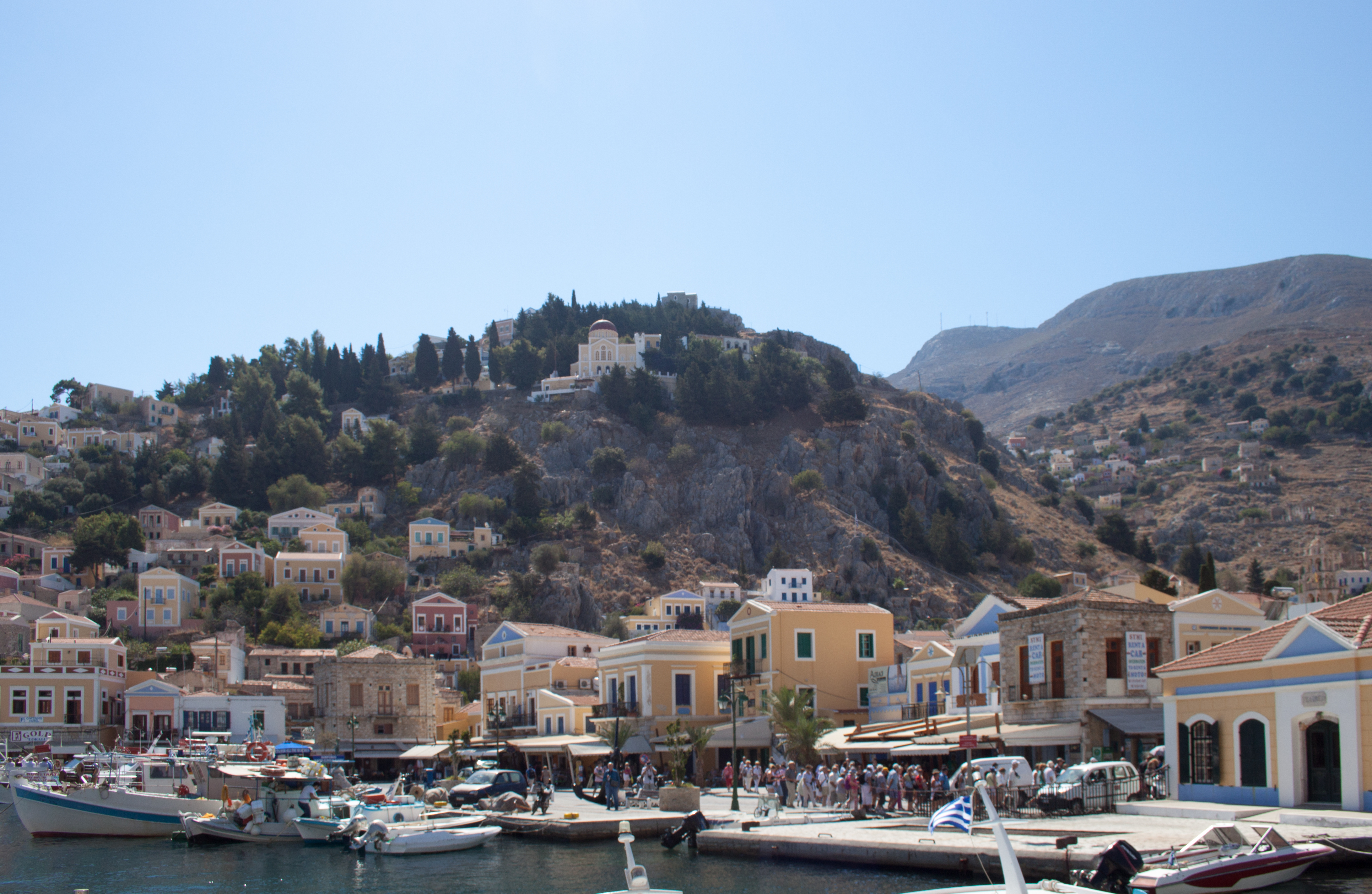 Detail of the harbour in Symi